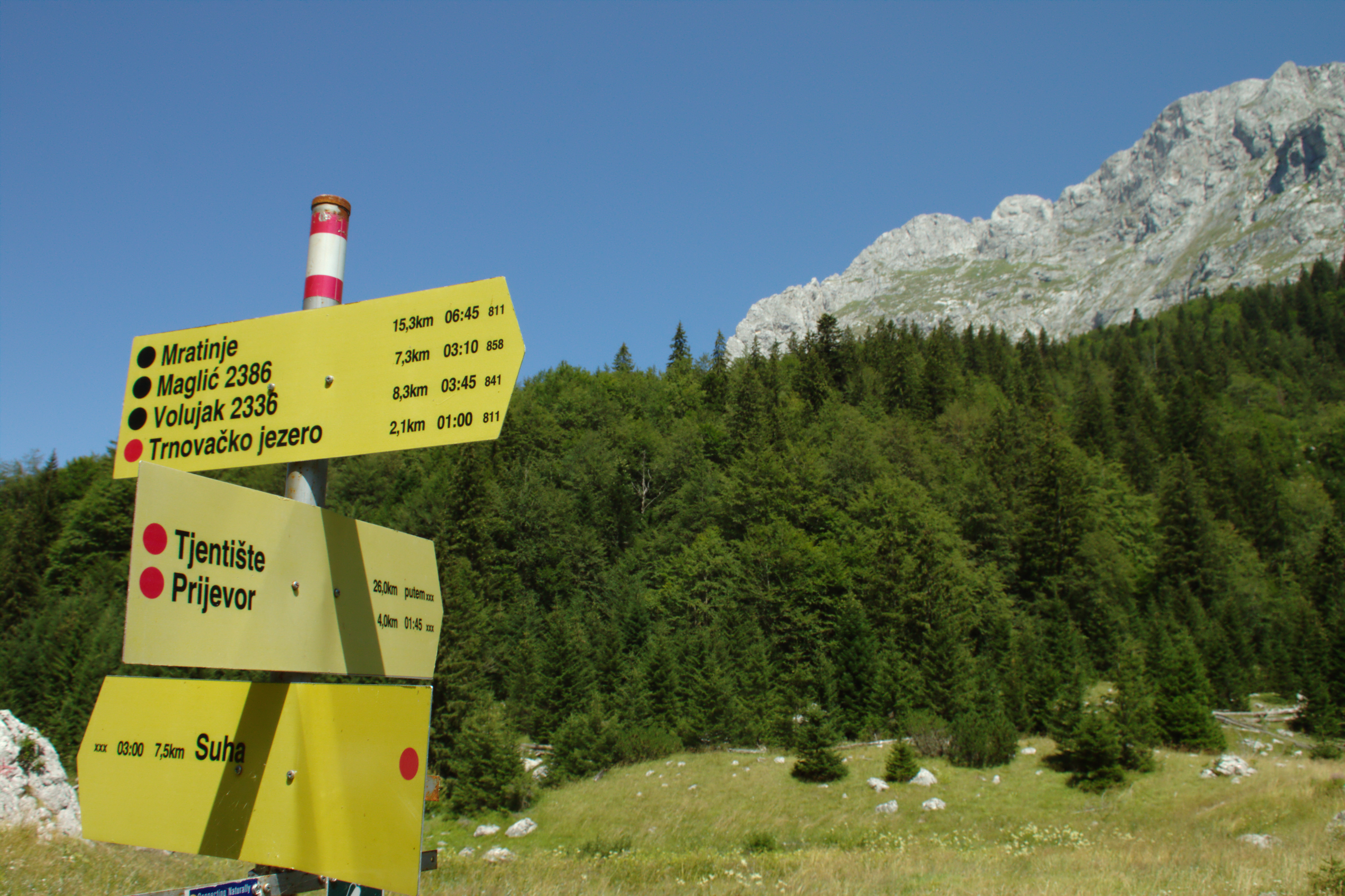 Tourist signs near Trnovačko lake, Montenegro